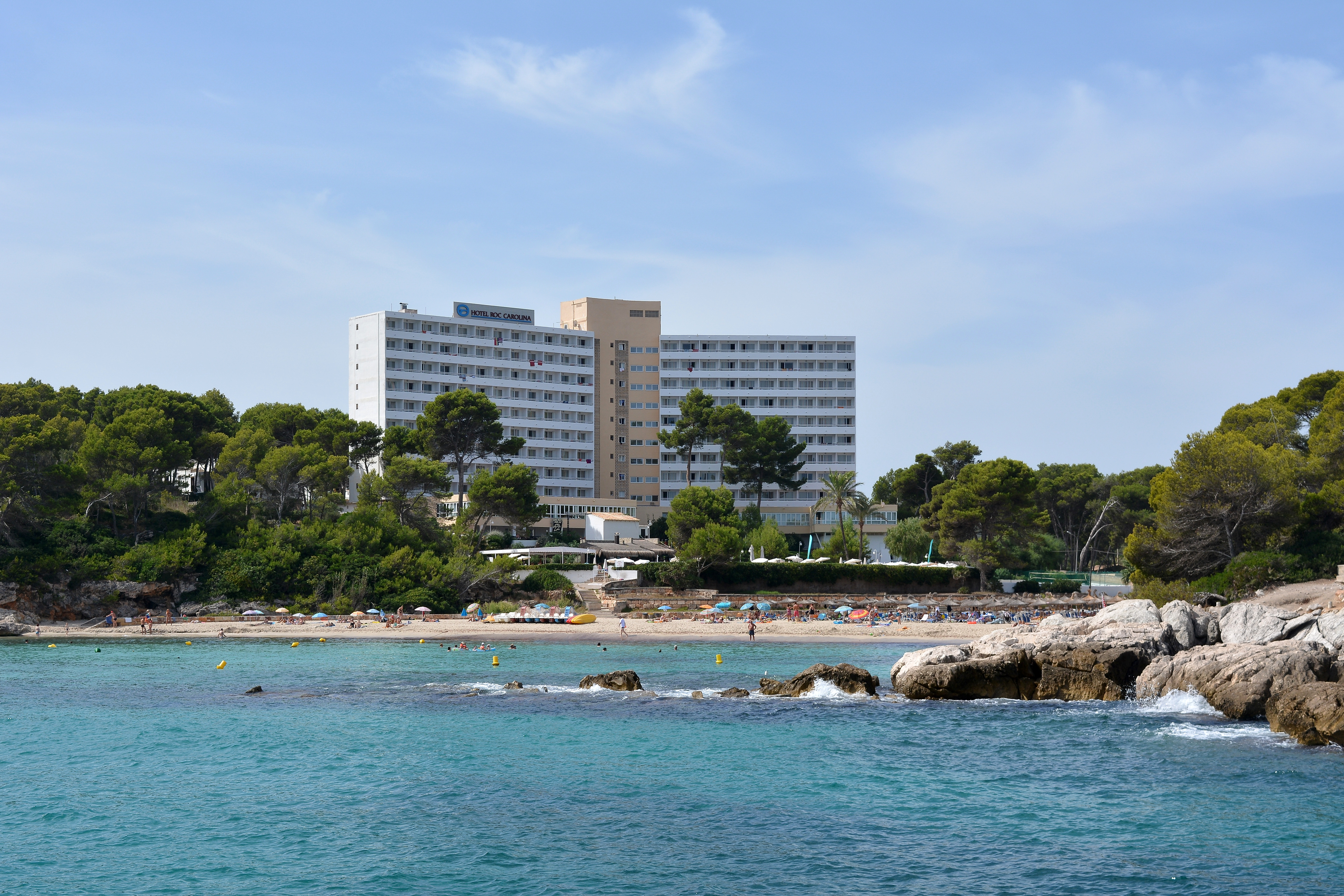 Excursion boats are sailing several times a day to Font de Sa Cala.